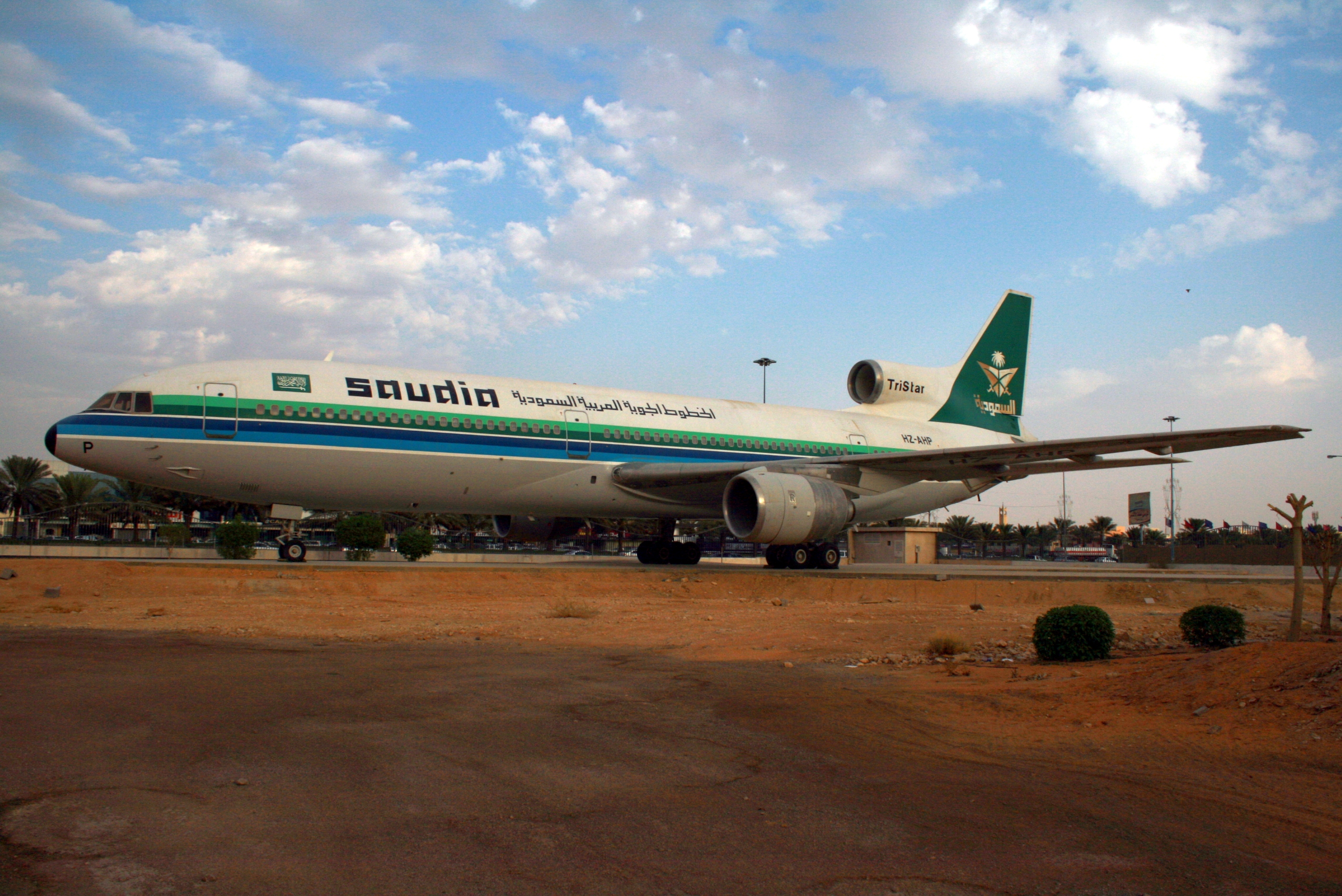 Former Saudia Lockheed L-1011 Tristar that serves as the gateguard for the Royal Saudi Air Force Museum in Riyadh